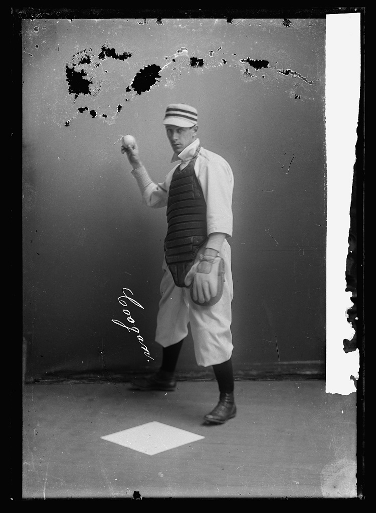 Baseball Player Dan Coogan photographed by C. M. Bell Studio